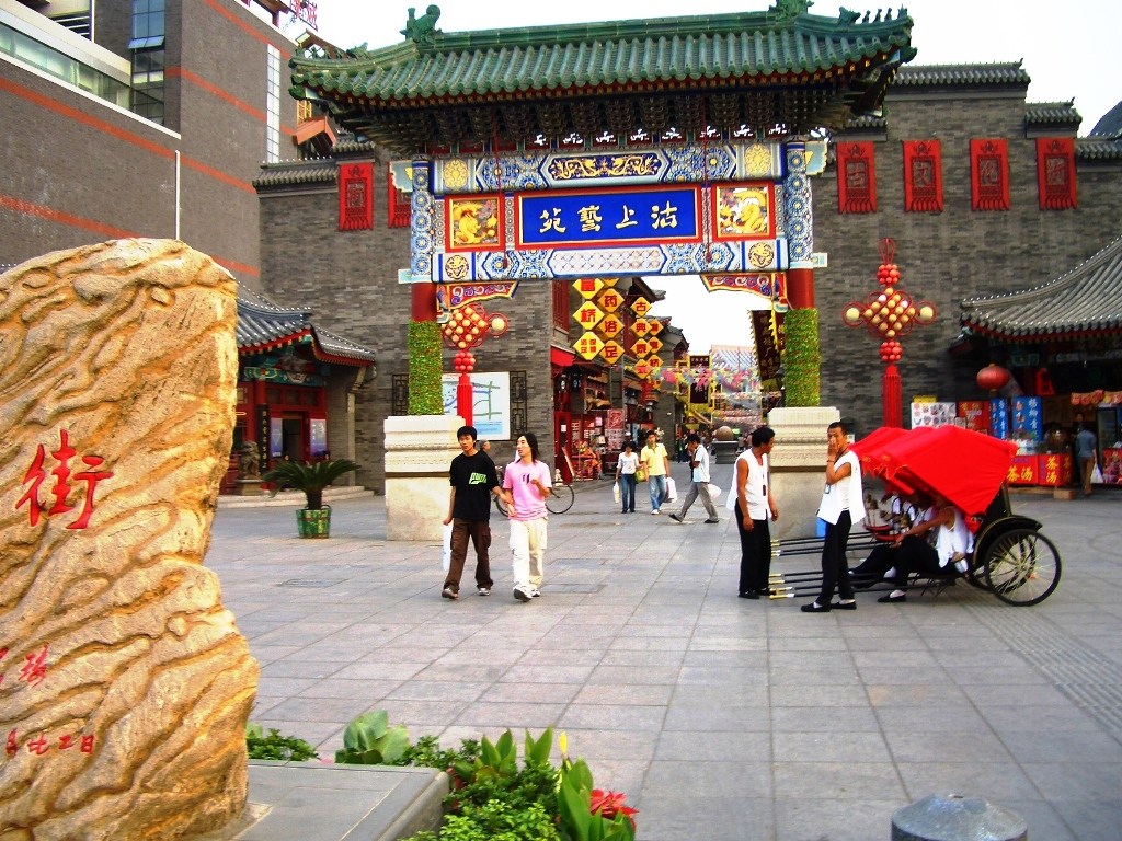 A traditional chinese market in Tianjin (mainland)